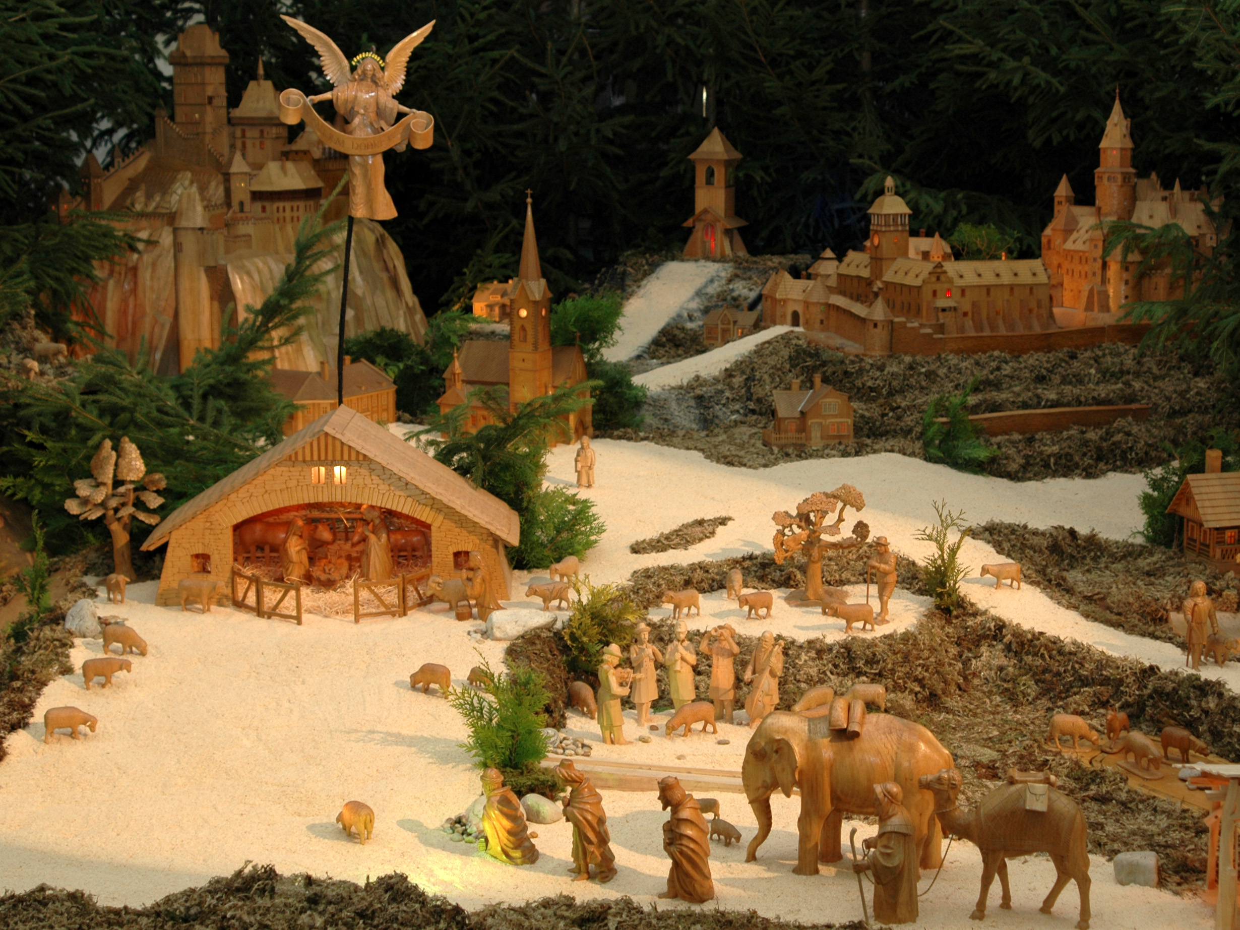 Wooden nativity scene built every year in Mohelnice, Czechia in local church.